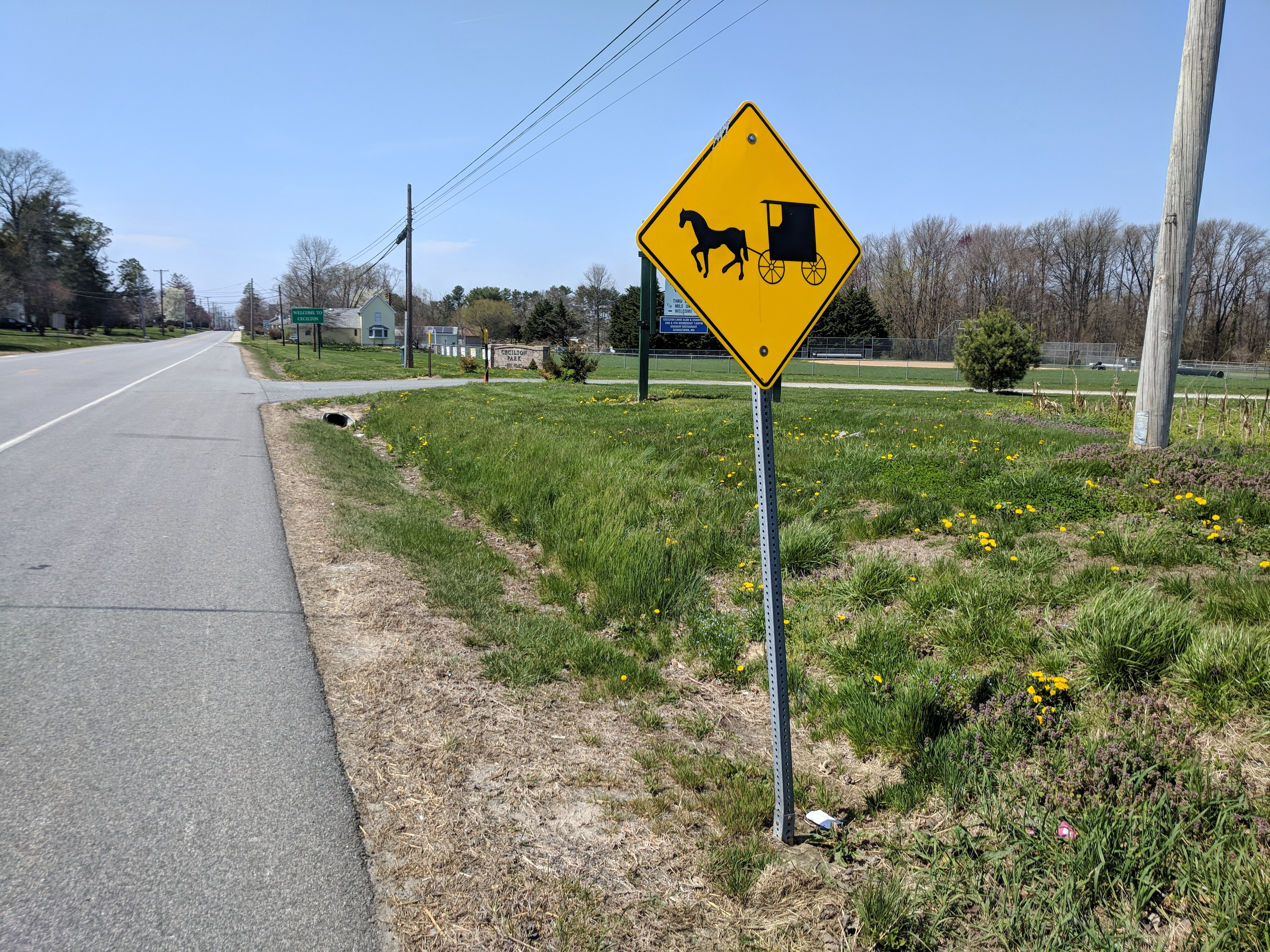 Amish horse and buggy warning signs in Cecilton, Cecil County, Maryland.